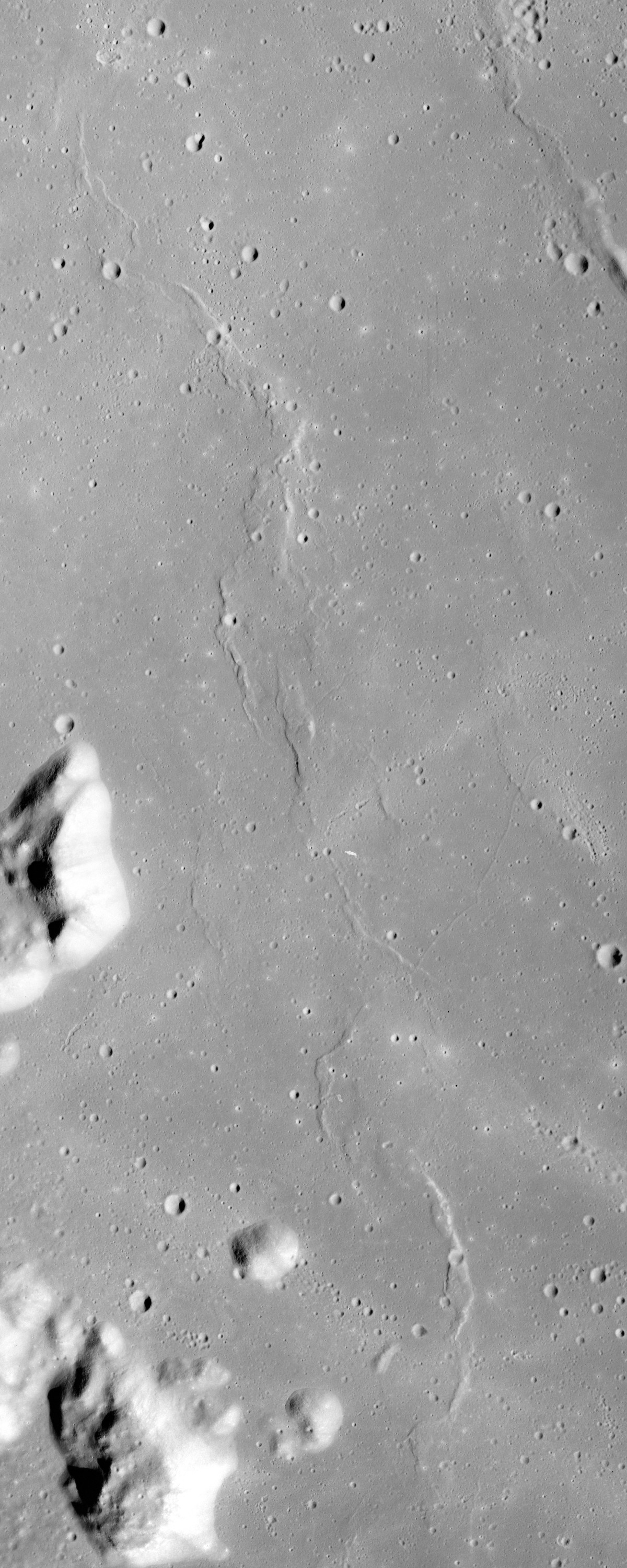 Dorsa Argand, on the moon. Part of Montes Harbinger are in lower left.